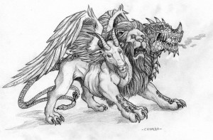 A handdrawn picture of a Chimera